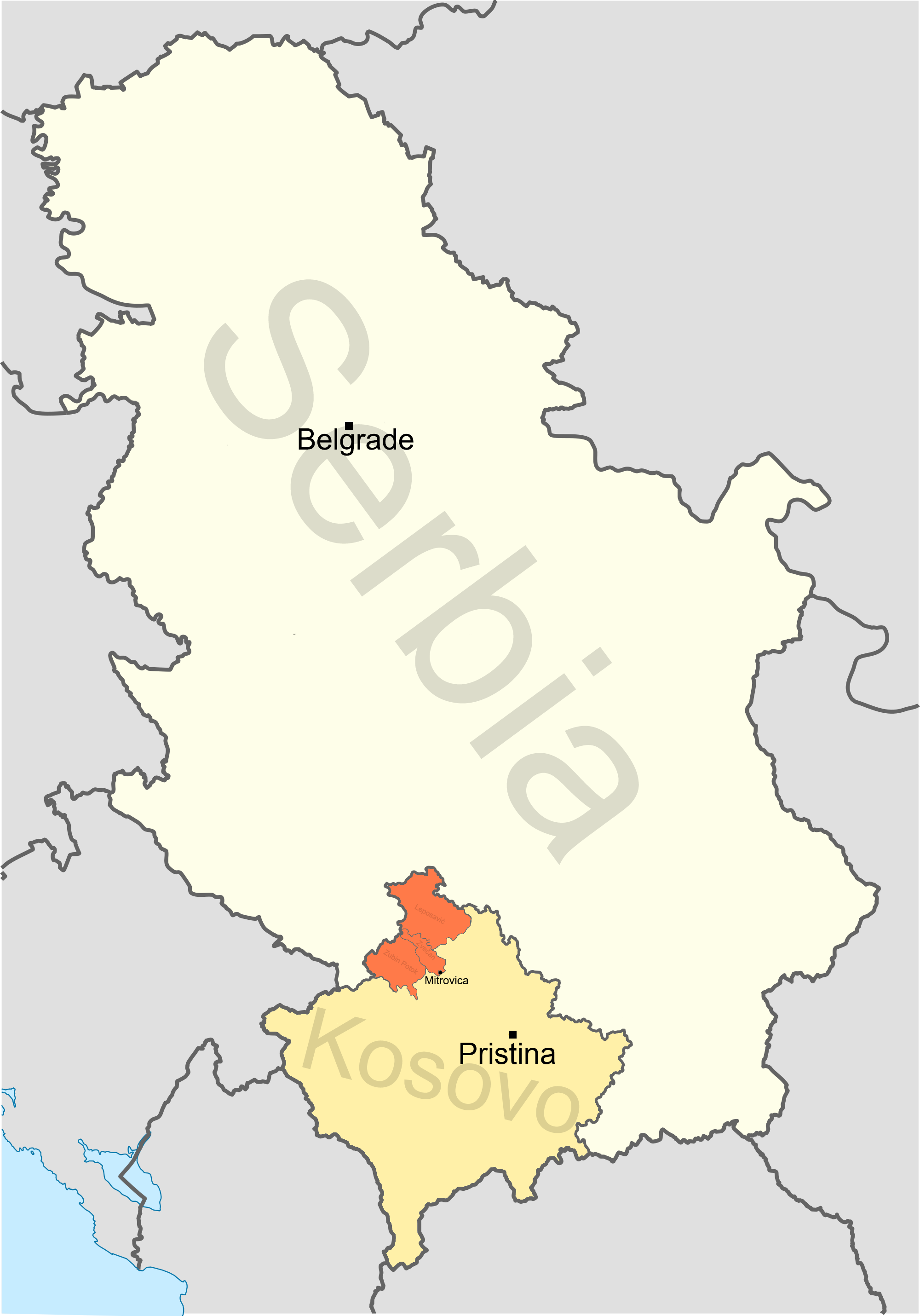 Location of North Kosovo